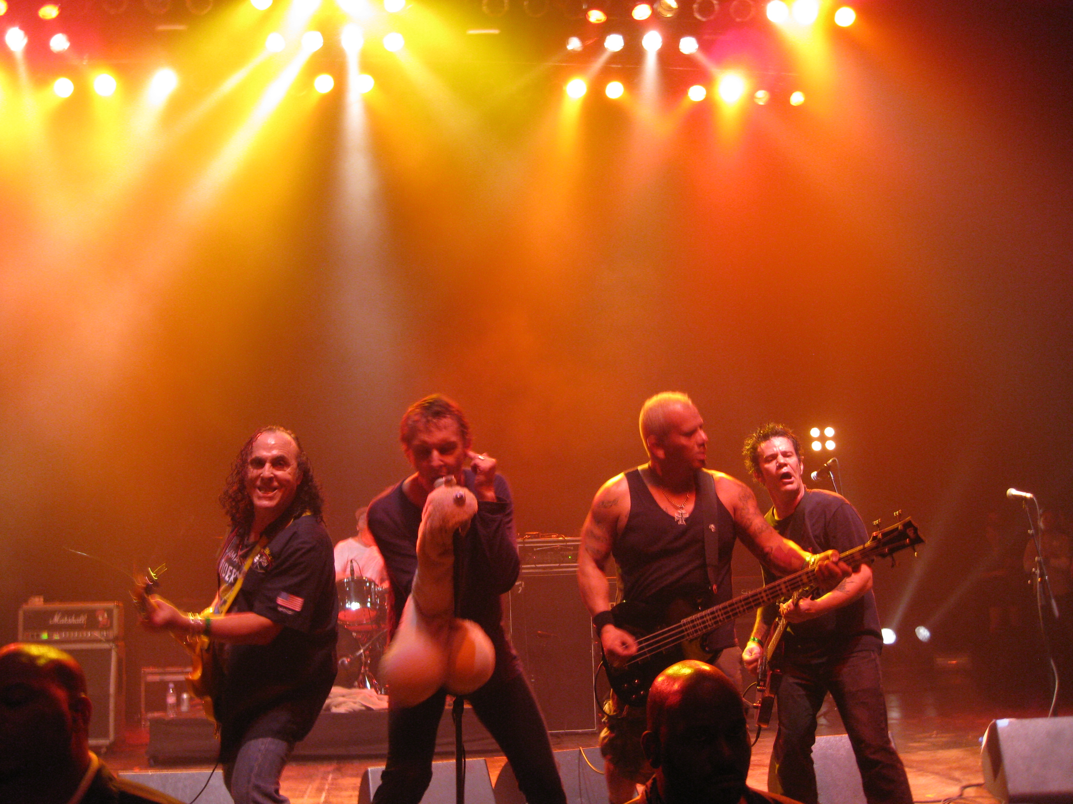 The Dickies performing December 18, 2011 at the Santa Monica Civic Auditorium in Santa Monica, California as part of the GV30 event.